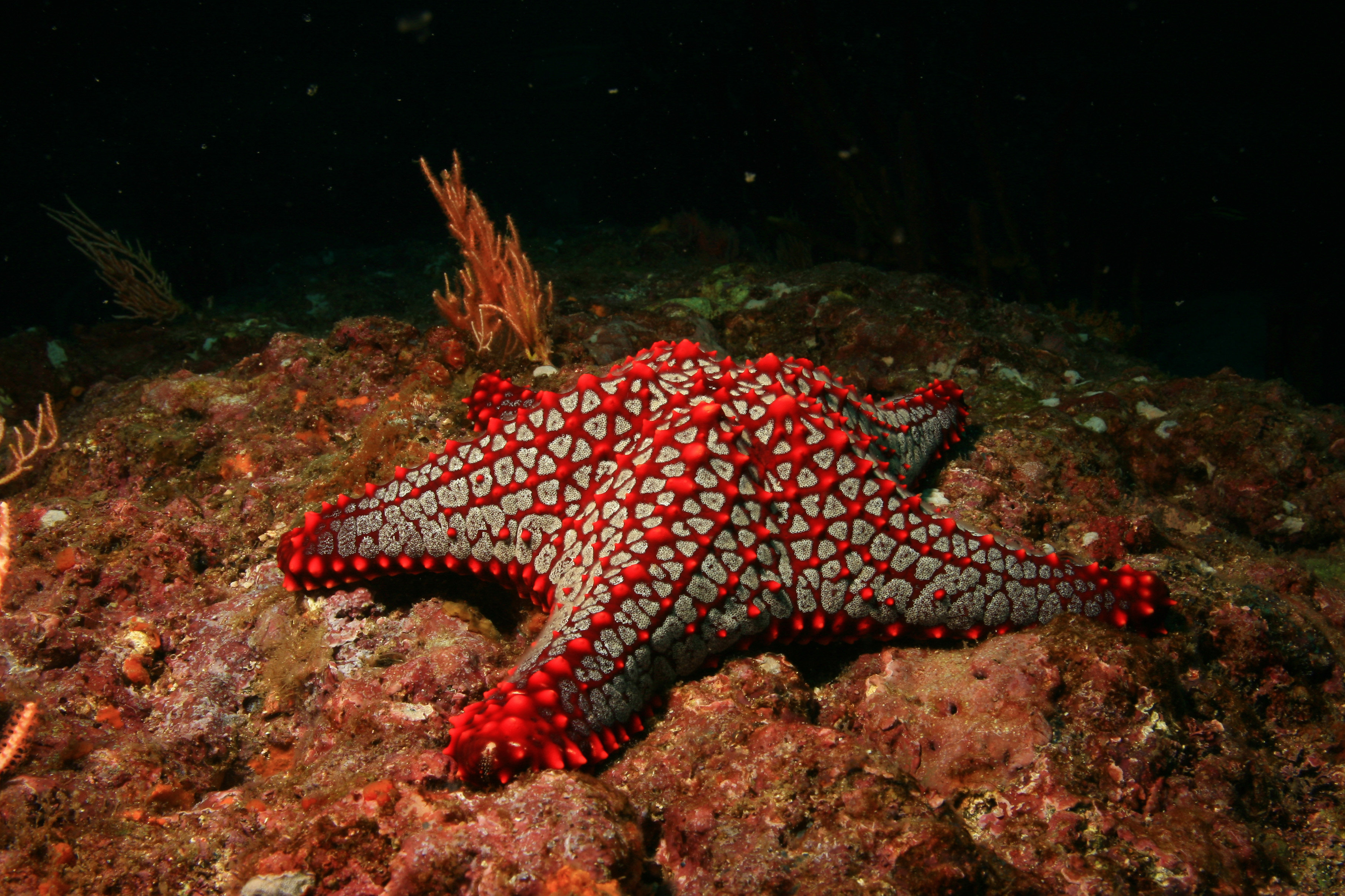 The color red, restored by my underwater strobe, neatly accents this sea star at Viuda (Widow) dive site in Coiba National Park, Panama, a UNESCO World Heritage site. At this depth, all of the natural red light has been filtered out by the seawater and this starfish looks dark brown without the aid of artificial light. This is a Panamic Cushion Star (Pentaceraster cumingi) Day 4